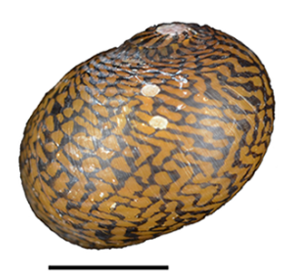 Photo of an abapertural view of a shell of Neritodryas cornea. Scale bar is 10 mm.